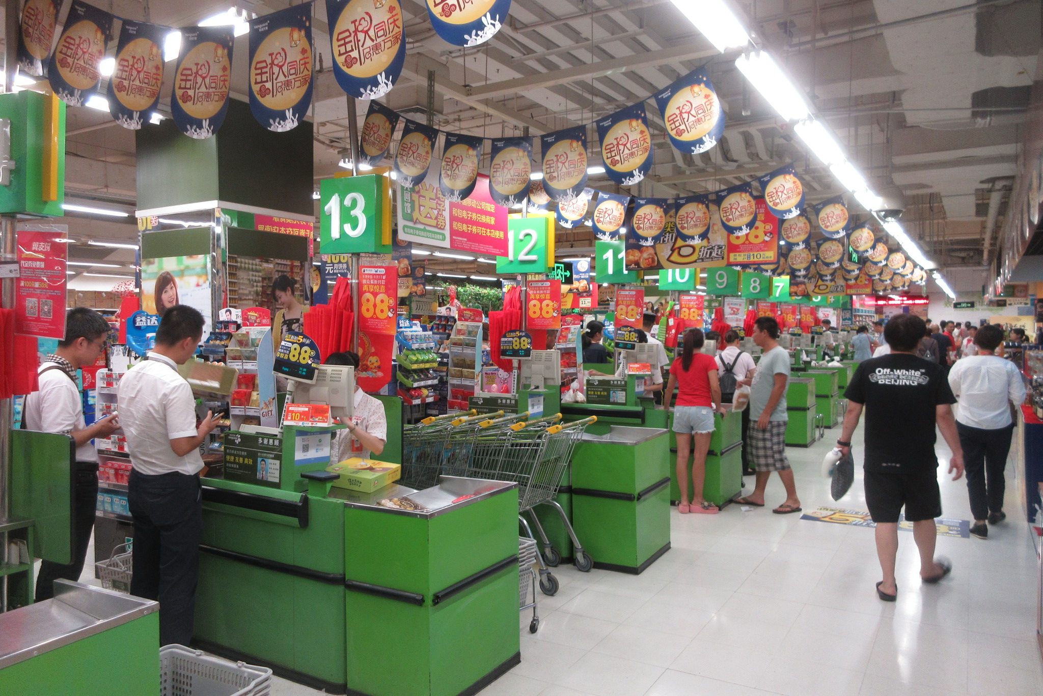 SZ 深圳市 Shenzhen 福田 Futian 福中路 Fuzhong Road 國際人才大廈 Rencai Building 華潤萬家 Vanguard CR Supermarket customer service counter Sept 2017